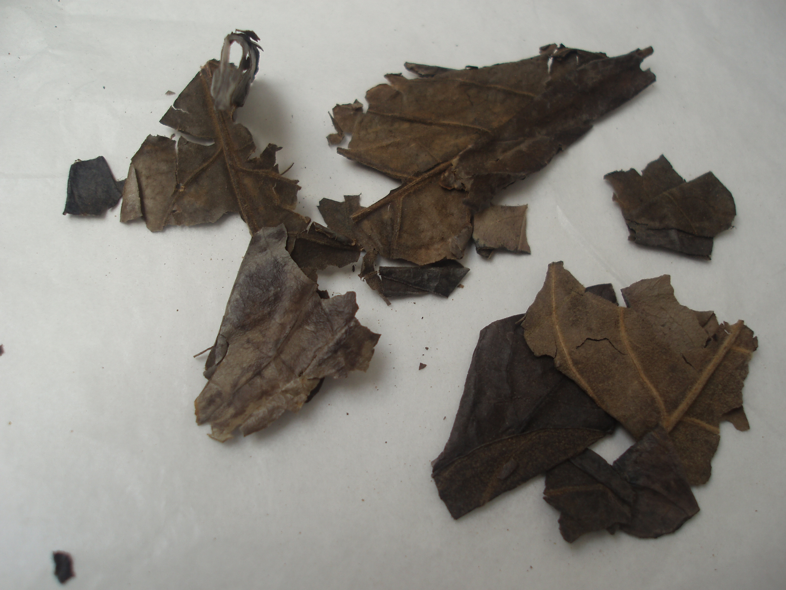 Genipa americana (Ñandypa), Paraguayan herbs